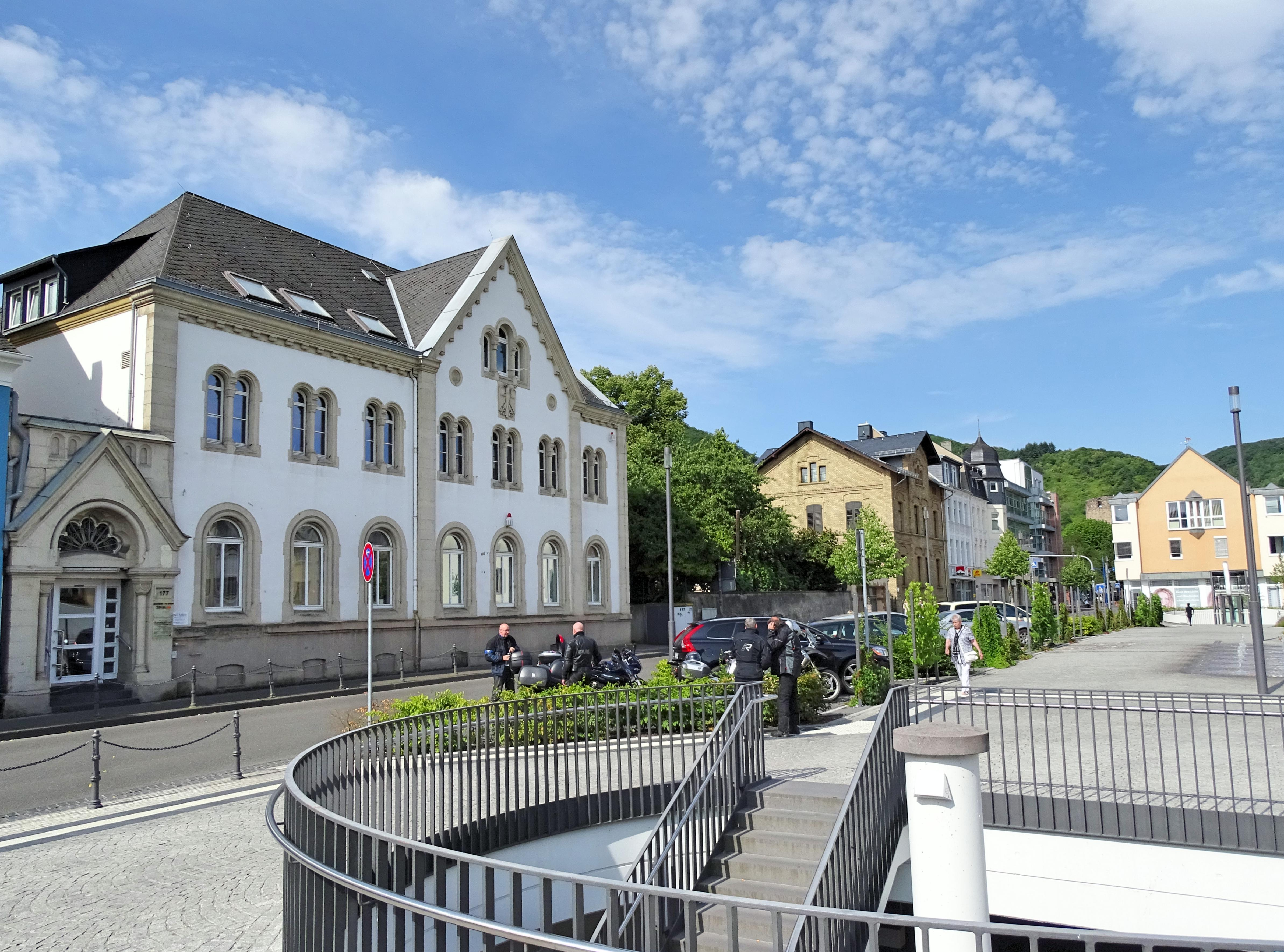 56154 Boppard, Germany